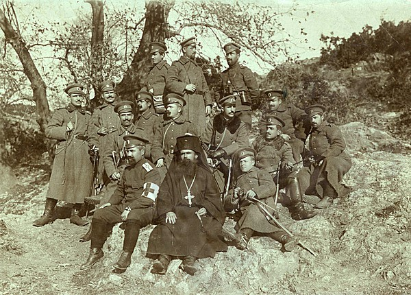 MAVC Officers Mihail_Dumbalakov,_Vladimir_Kanazirev_and_others